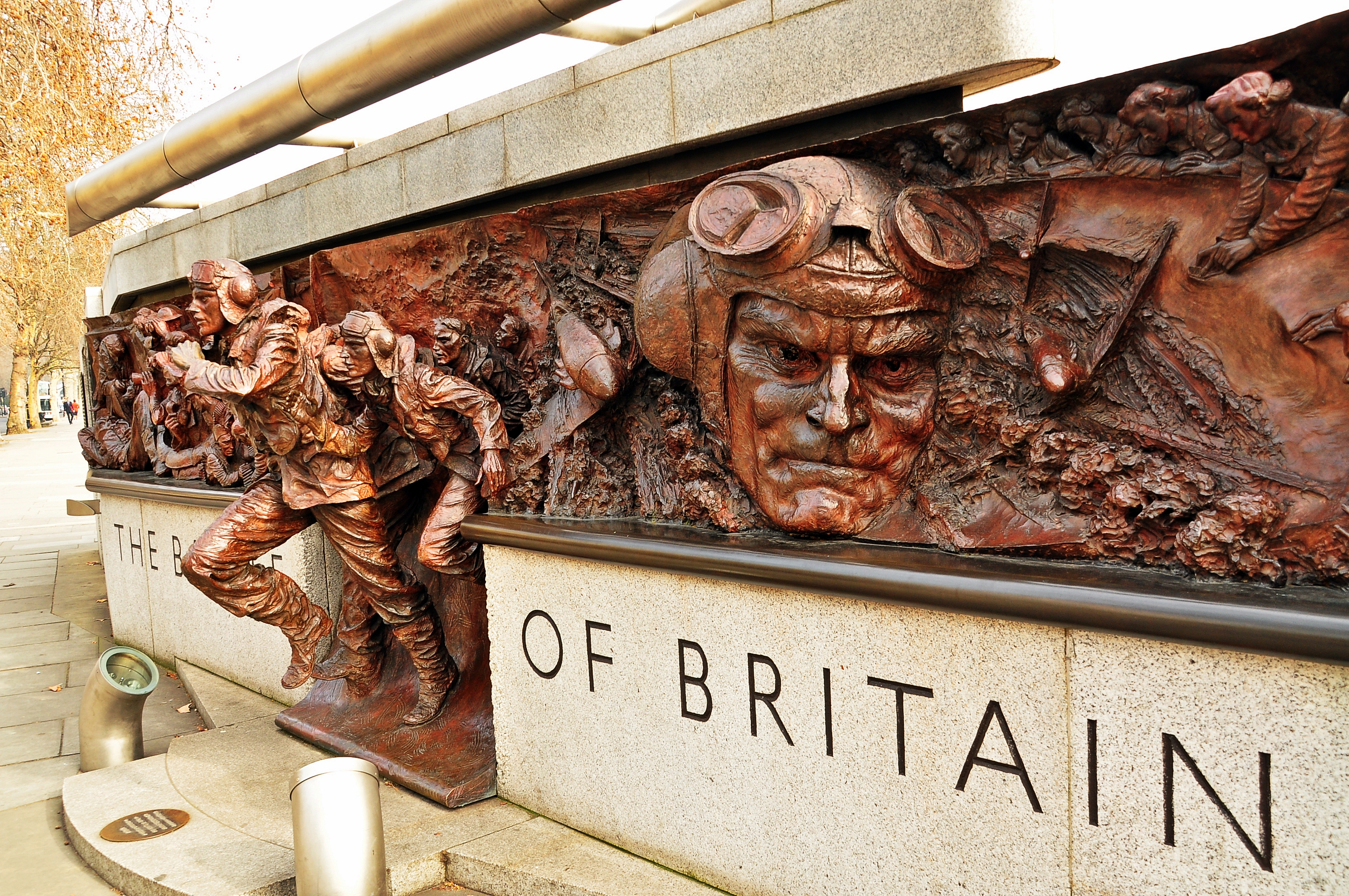 Battle of Britain Monument, London